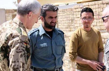 Afghan Lt. Gen. Mohammed Daud Daud, second from left, the commander of 303rd Regional Police Zone, speaks with German Army Maj. Gen. Markus Kneip, left, the commander of the International Security Assistance Force (ISAF) Regional Command North, and U.S. Army Brig. Gen. Sean Mulholland, right, the deputy commander of ISAF Regional Command North, before a security shura, or meeting, held at Camp Marmal, Afghanistan, April 11, 2011. The security shura, attended by all Combined Team North commanders, gave an opportunity for regional leaders to speak about current, ongoing and future security operations. (U.S. Navy photo by Petty Officer 2nd Class Jason Johnston/Released)